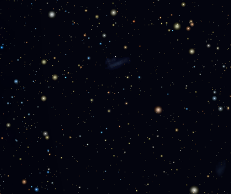 Image of Mensa